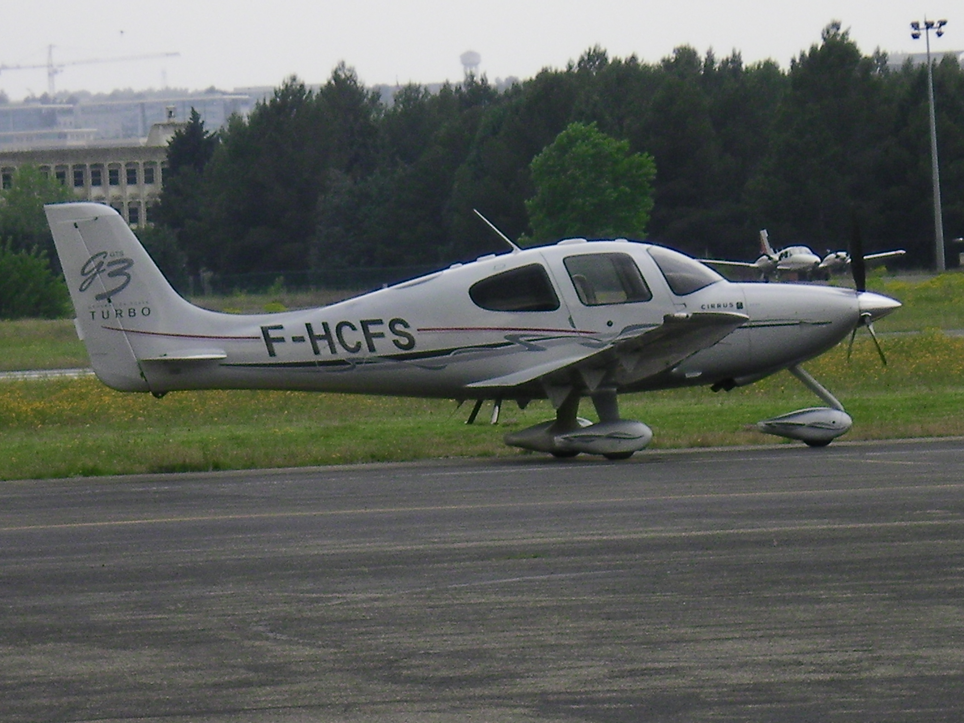 Cirrus SR-22GTS G3 c/n 2622